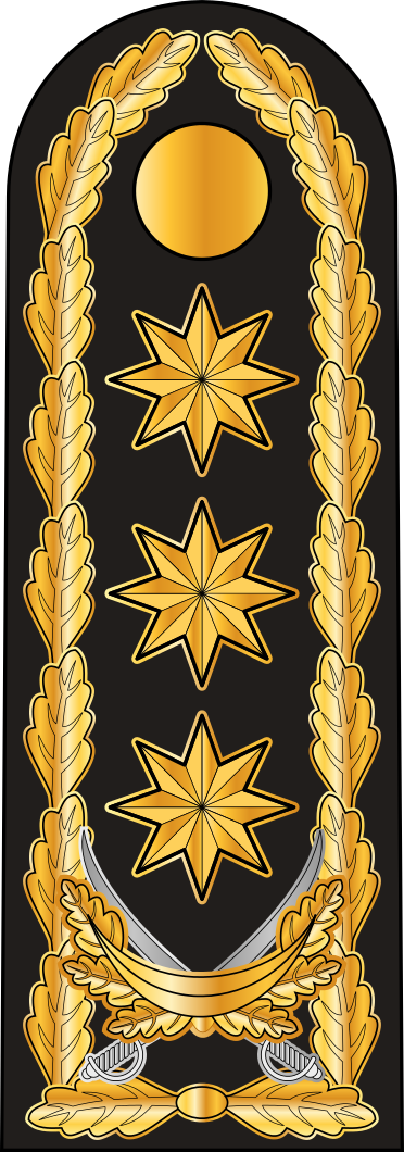 Admiral of Azerbaijan's Navy